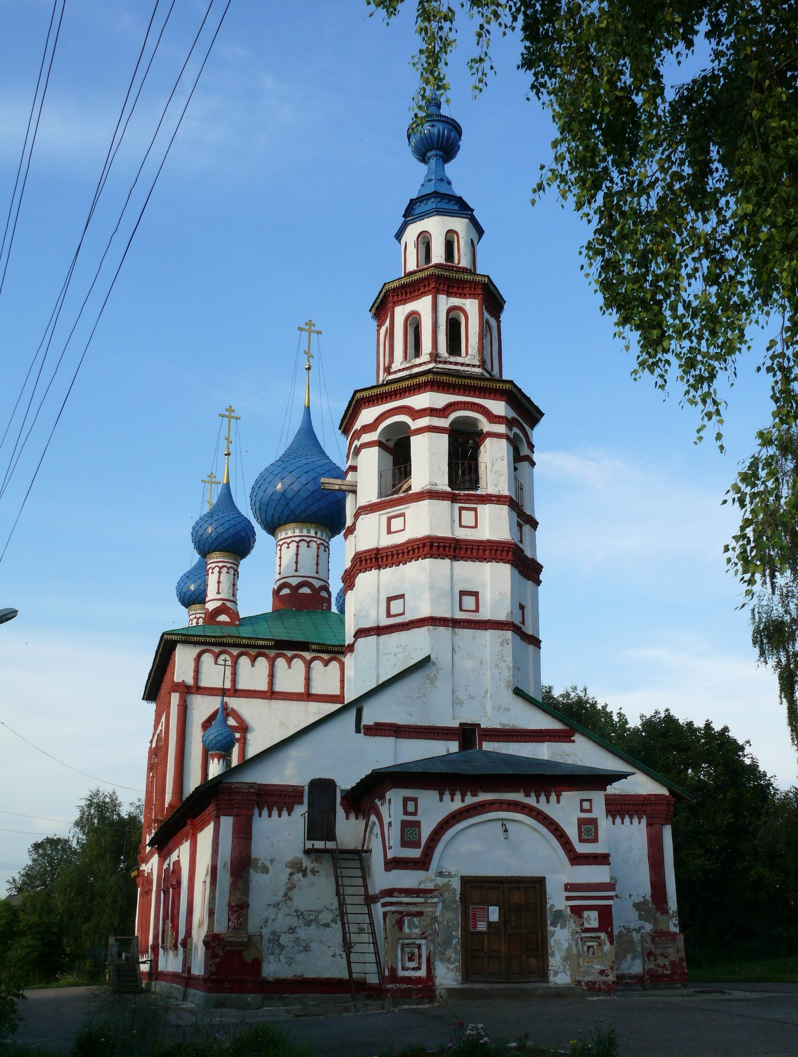 Church of Korsun icon of the Mother of God (1730) in Uglich